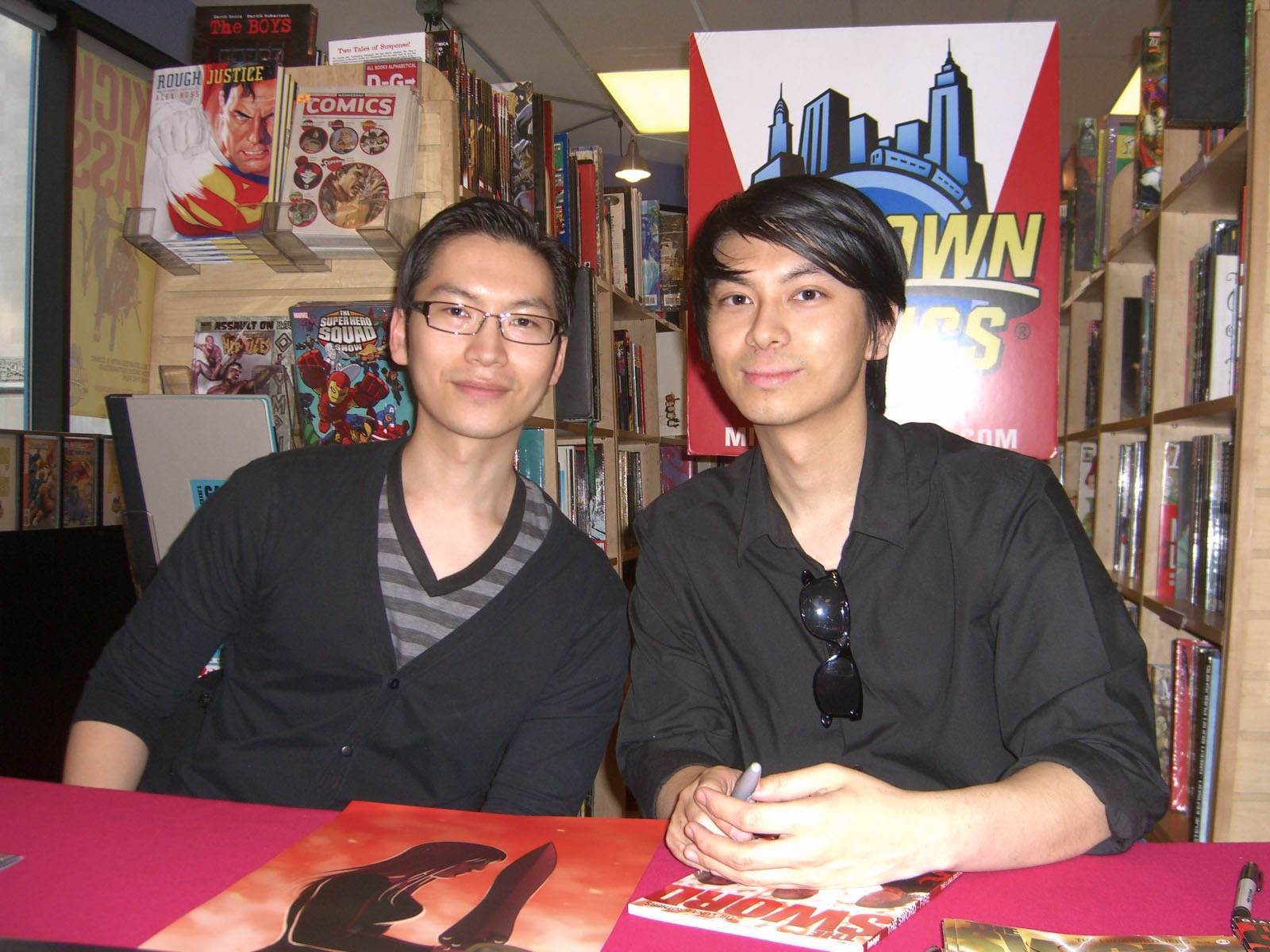 Comic book creators Joshua Luna (left) and Jonathan Luna (right), at a book signing at Midtown Comics Grand Central in Manhattan, May 13, 2010. This photo was created by Luigi Novi. It is not in the public domain, and use of this file outside of the licensing terms is a copyright violation.